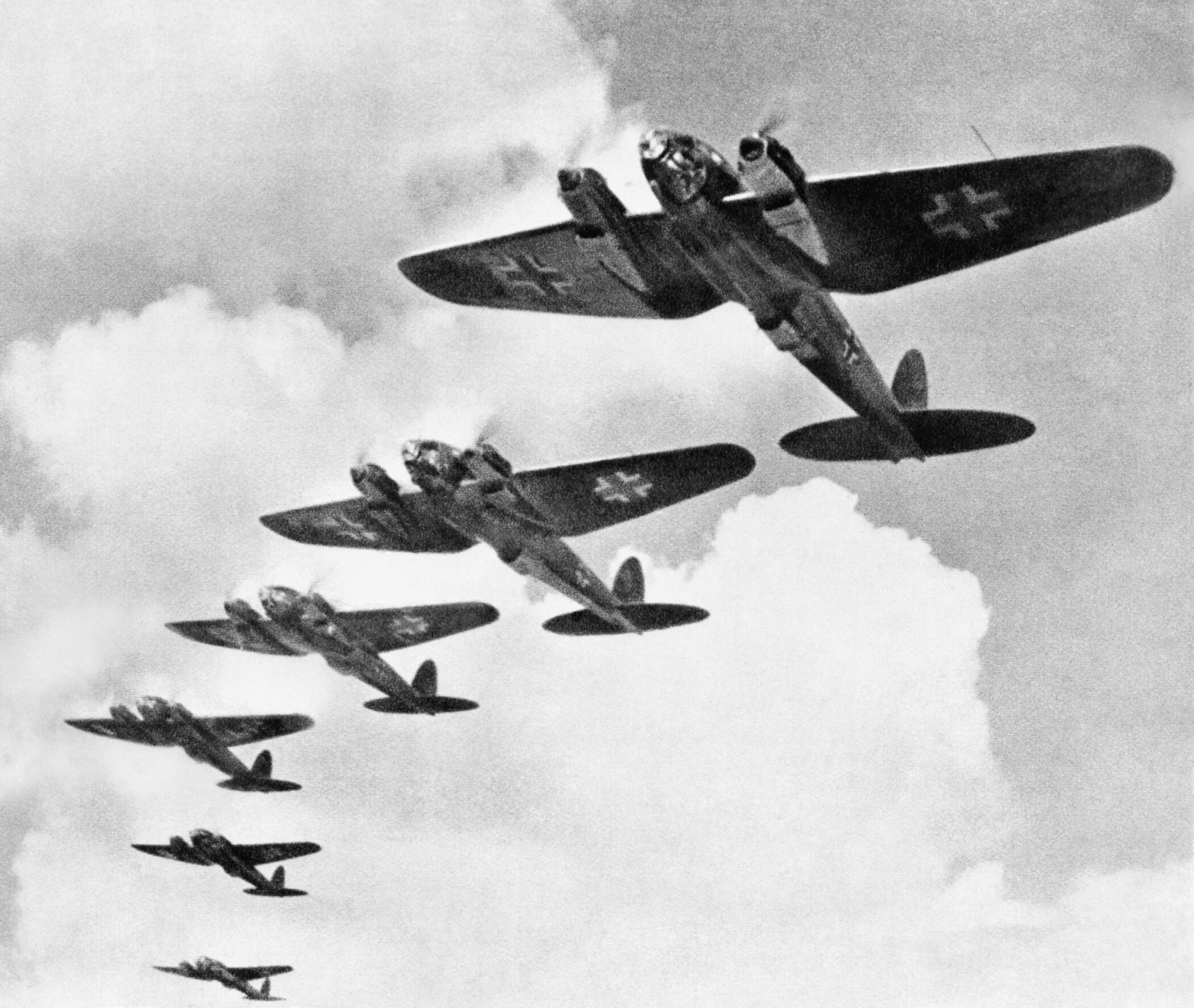 German Heinkel He 111s which went into service in 1937. Some 6000 Heinkel He 111s were built but were found to be a poor match for Hurricanes and Spitfires during the Battle of Britain.